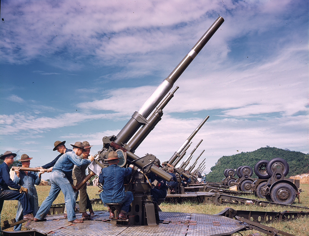 Title: US Army, Puerto Rico Defenses Creator: Robert Yarnall Richie Date: 1939 Place: Puerto Rico Physical Description: 1 transparency: film, color; 10 x 13 cm. File: ag1982_0234_2063_K_39_sm_opt.jpg Rights: Please cite DeGolyer Library, Southern Methodist University when using this file. A high-resolution version of this file may be obtained for a fee. For details see the web page. For other information, . For more information, View the Robert Yarnall Richie Photograph Collection